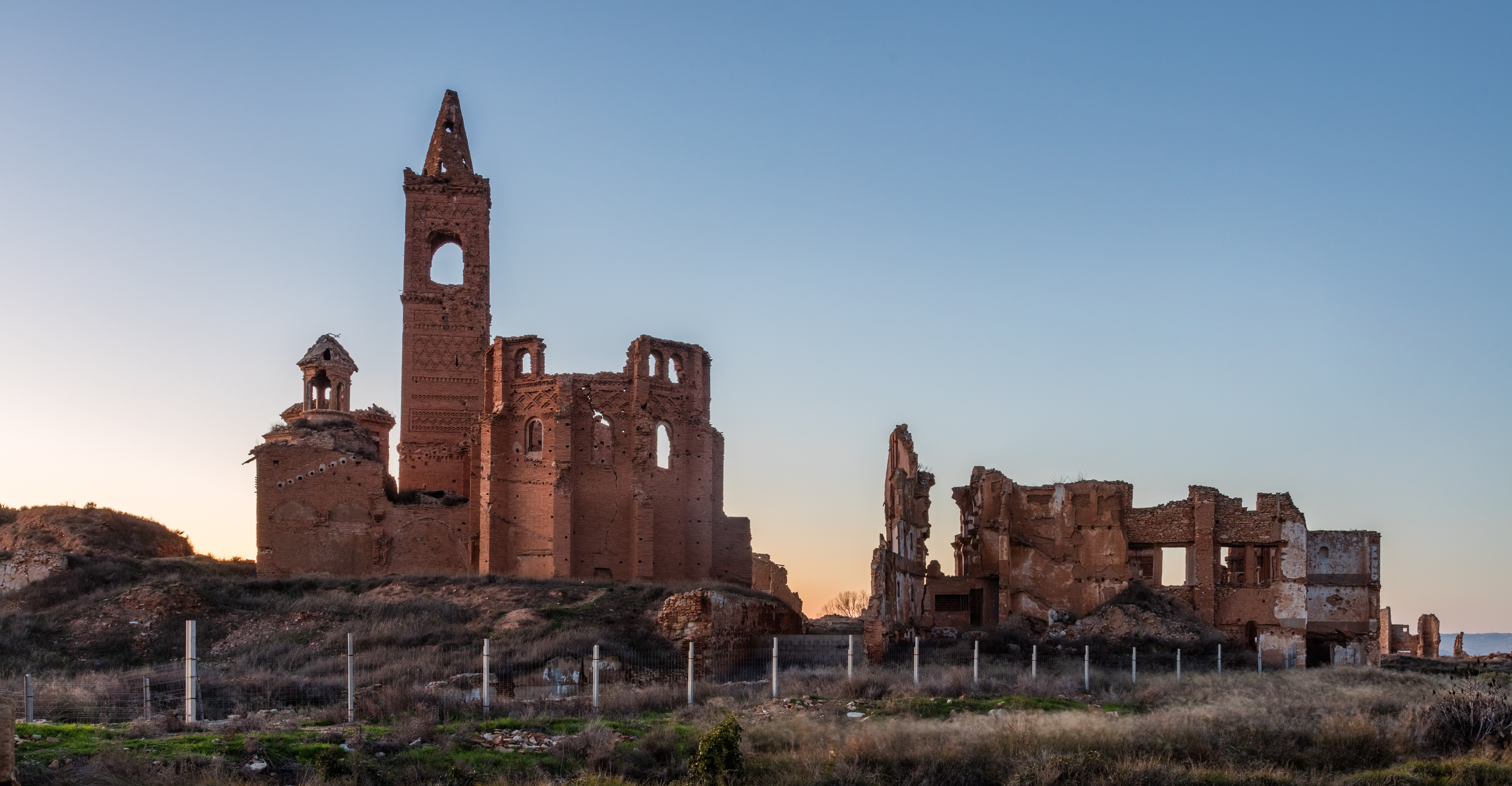 Old town of Belchite, Zaragoza, Spain